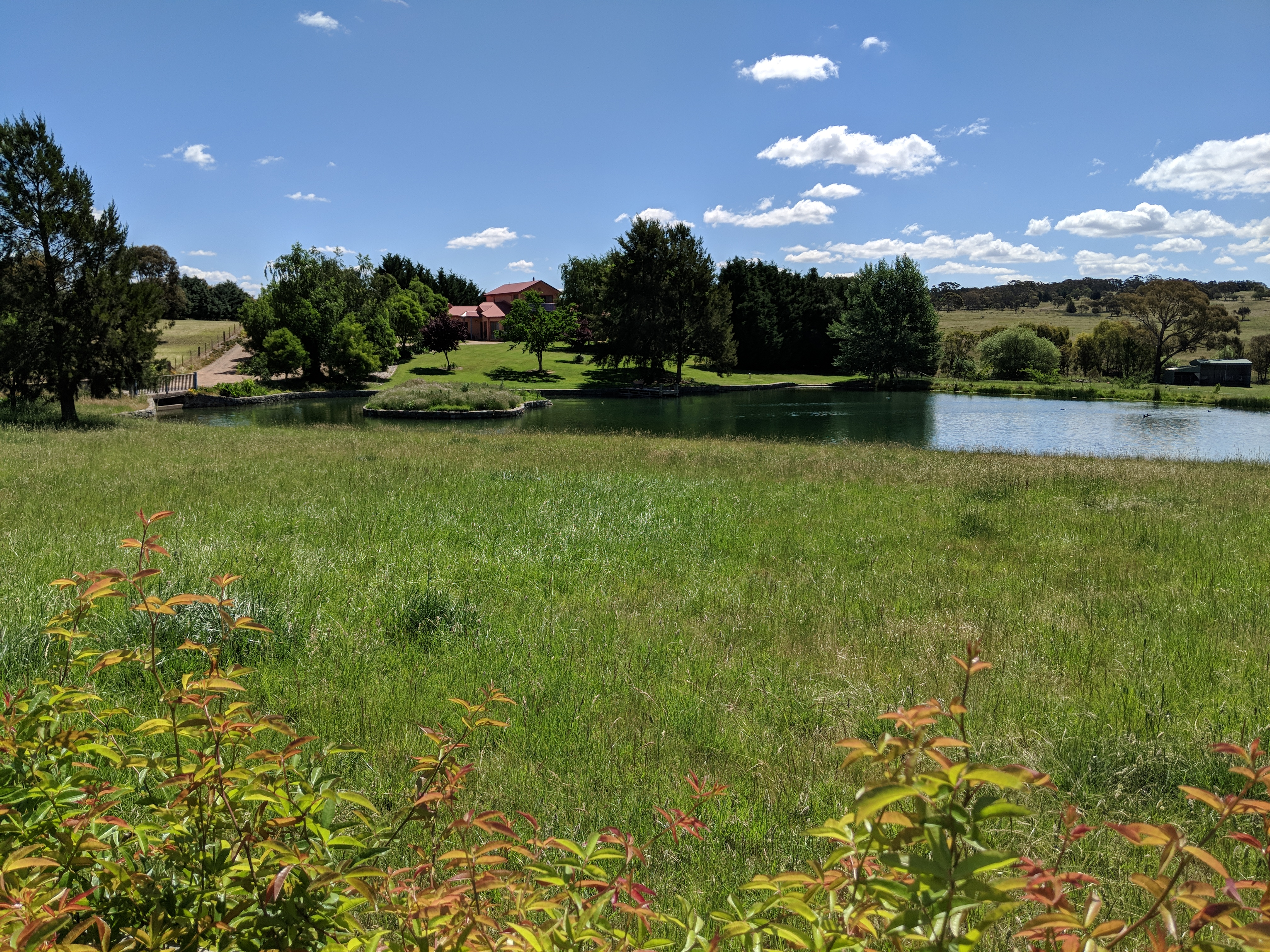 Wamboin, New South Wales, 2017